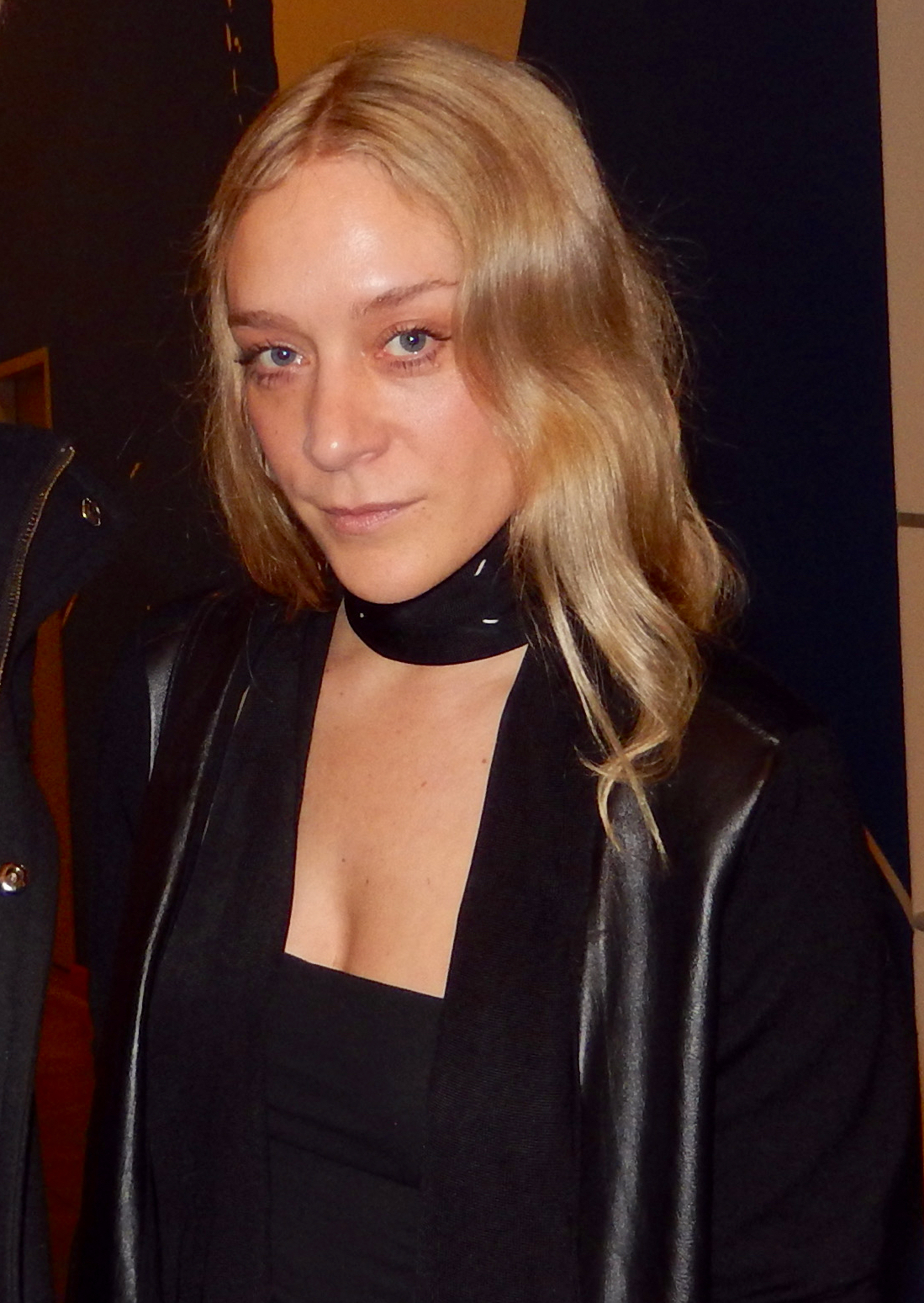 Chloë Sevigny in 2017